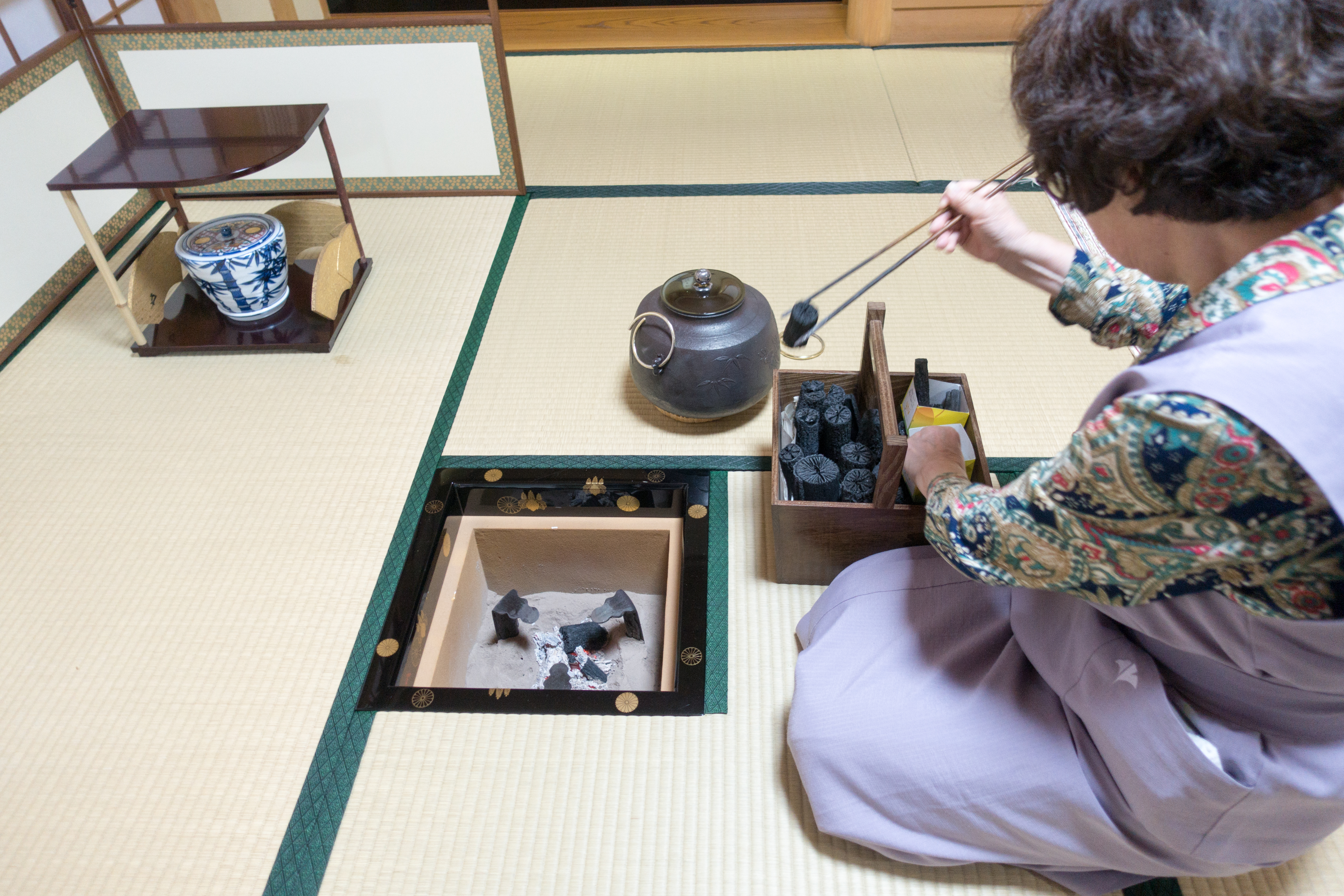 Tea ceremony